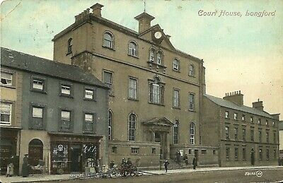 Old postcard of Longford Courthouse